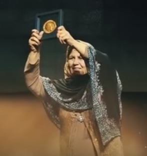 Professor Aqeela Asifi who won the 2015 UNHCR Nansen Refugee Award for her work with refugees - these are screengrabs from a freely licensed youtube